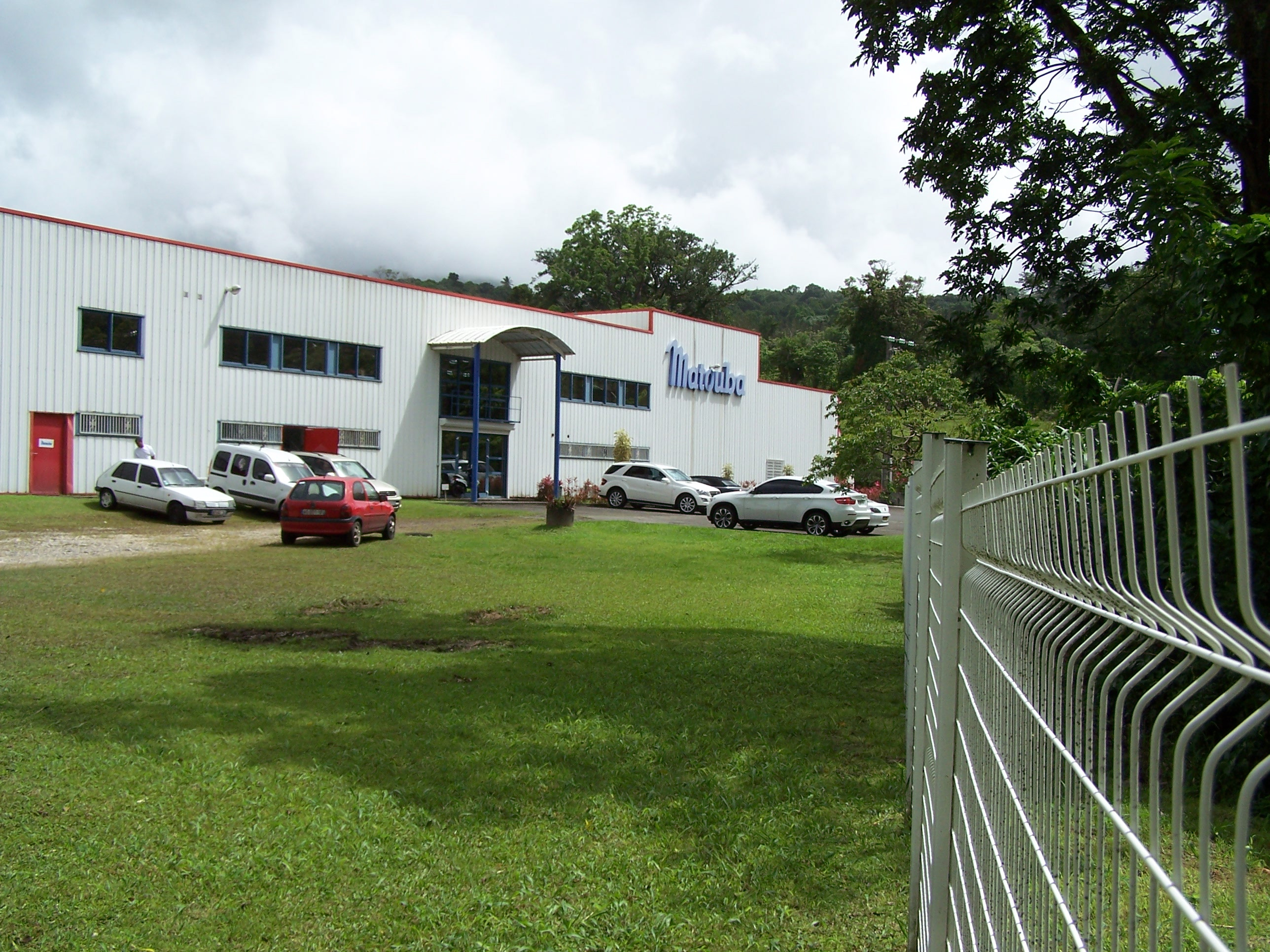 Usine d'eau de source Matouba, située à Matouba sur la commune de Saint-Claude, Guadeloupe